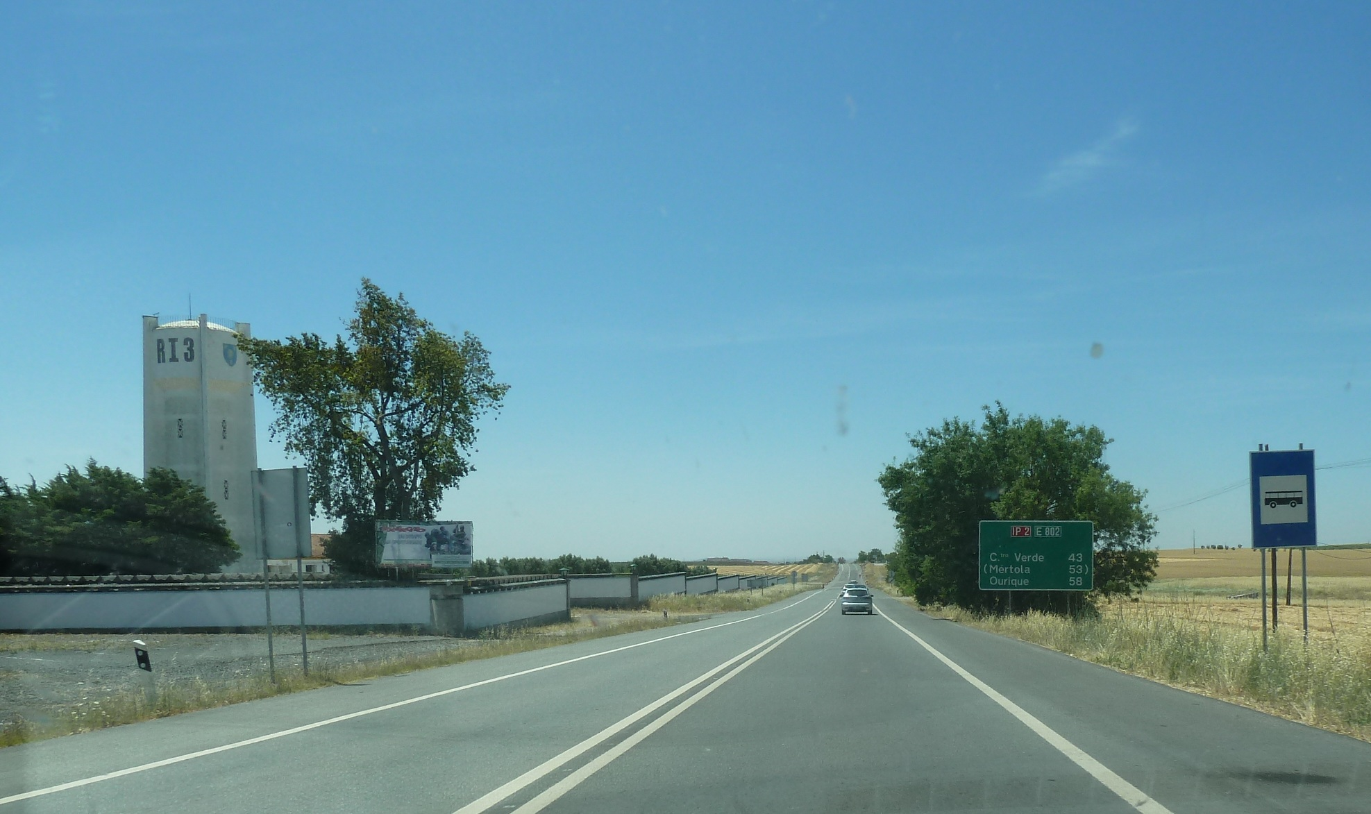 The road IP2/E802 south of Beja, Portugal